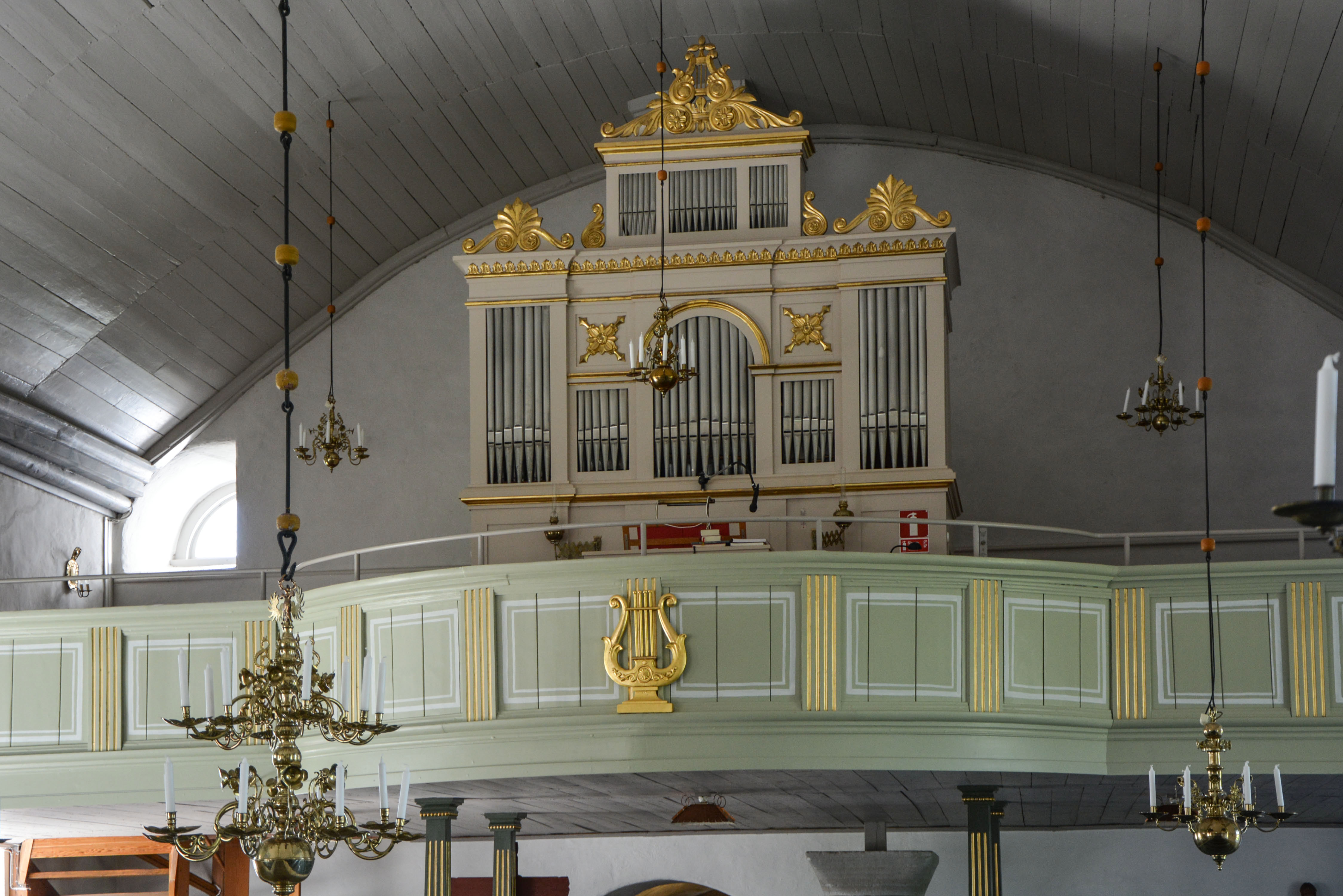 Föra Church.The organ. Organ front by C J Johansson 1872.